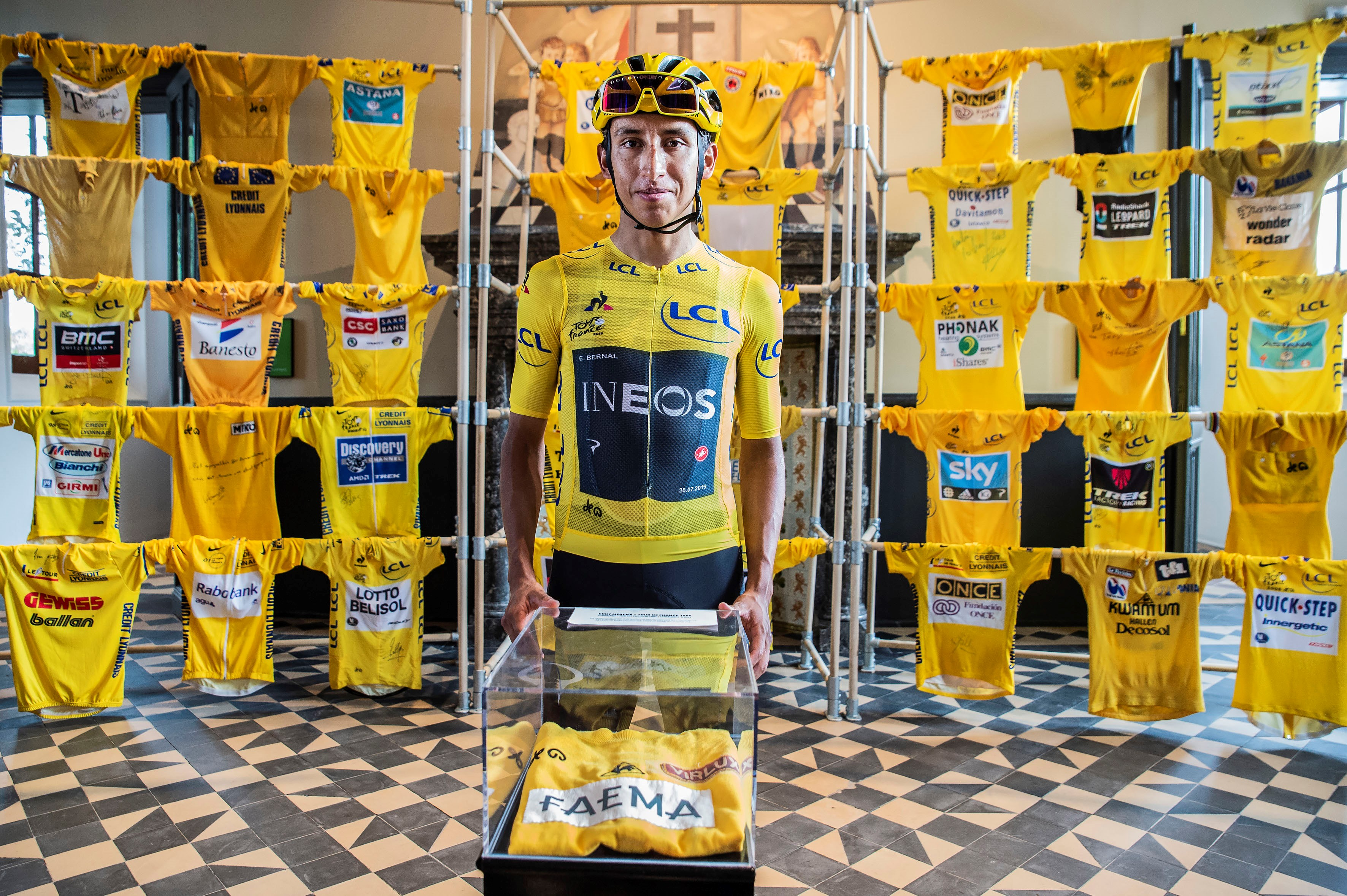 Egan Bernal, winner of the Tour de France 2019, poses with his yellow jersey in KOERS. Museum of Cycle Racing in Roeselare, Belgium, with the yellow jersey of Eddy Merckx and others yellow yerseys in the exhibition.